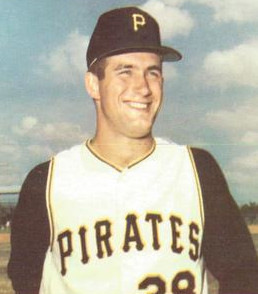 Professional baseball player Steve Blass